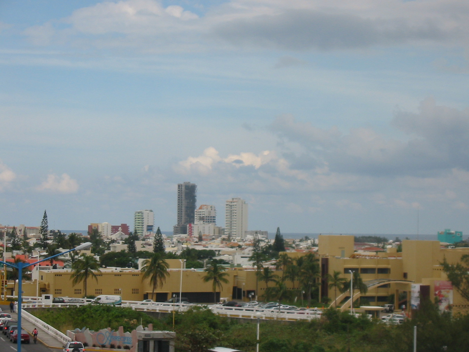 View of Boca del Rio Veracruz from Friendship Bridge.